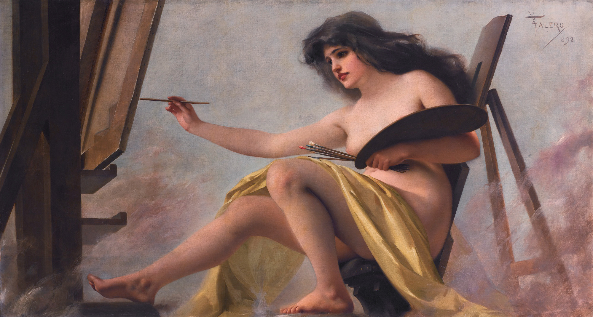 An allegory of art oil on canvas 105.7 x 194.3 cm signed t.r.: LFALERO / 1892